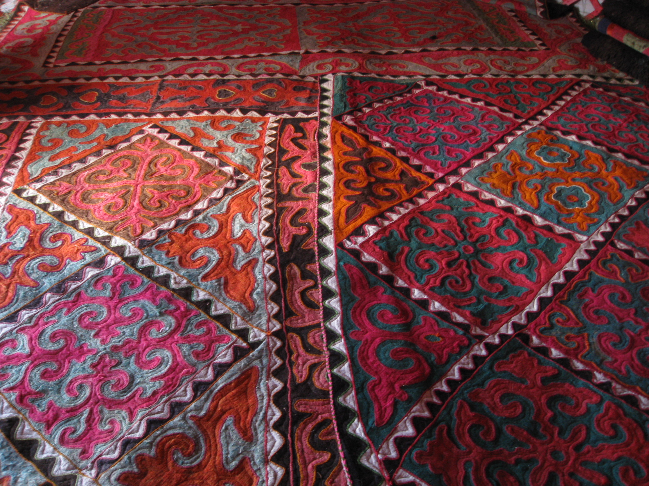 Traditional felt rugs (shyrdaks) in a Kyrgyz yurt.